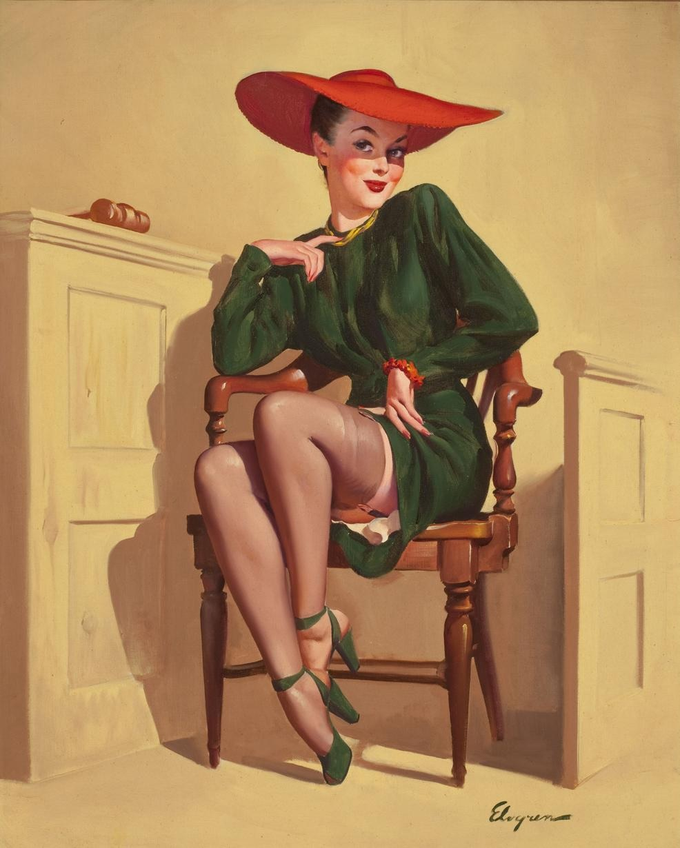 "The Verdict Was, Wow!" by Gil Elvgren, 1947.